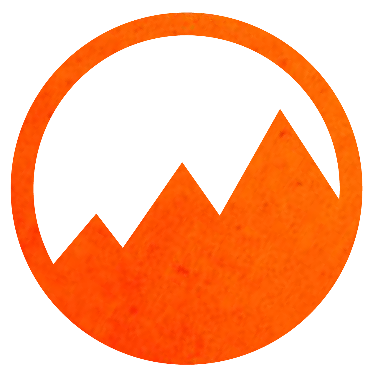 The file is the logo of Conquest 2018